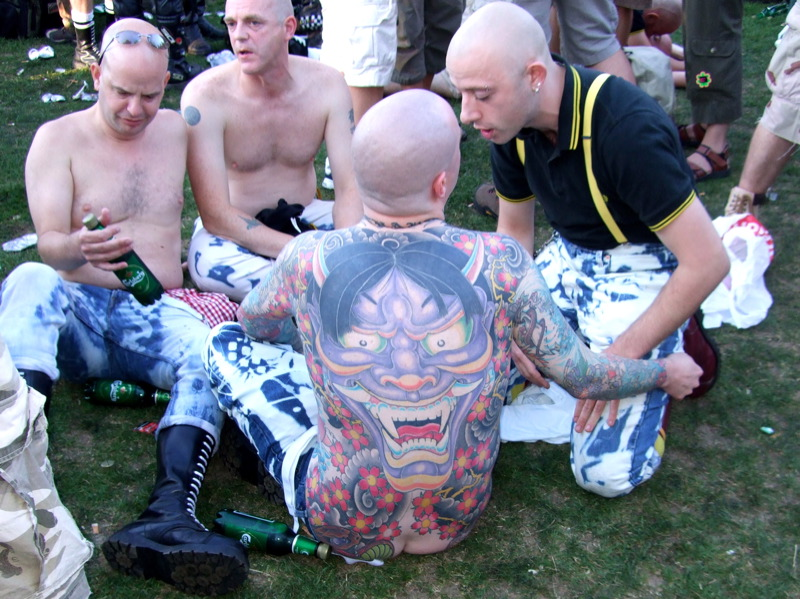 Group of skinhead, one with a devil-like tattoo on his back. Brighton Pride, 2007.